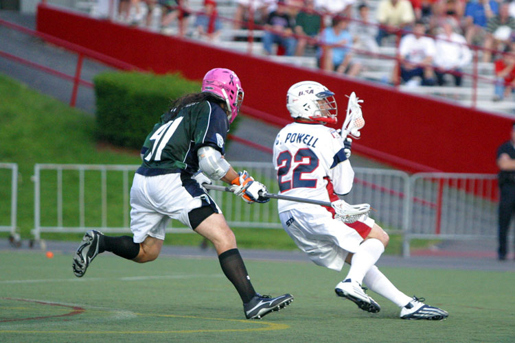 Casey Powell dodging vs. Brian Spallina